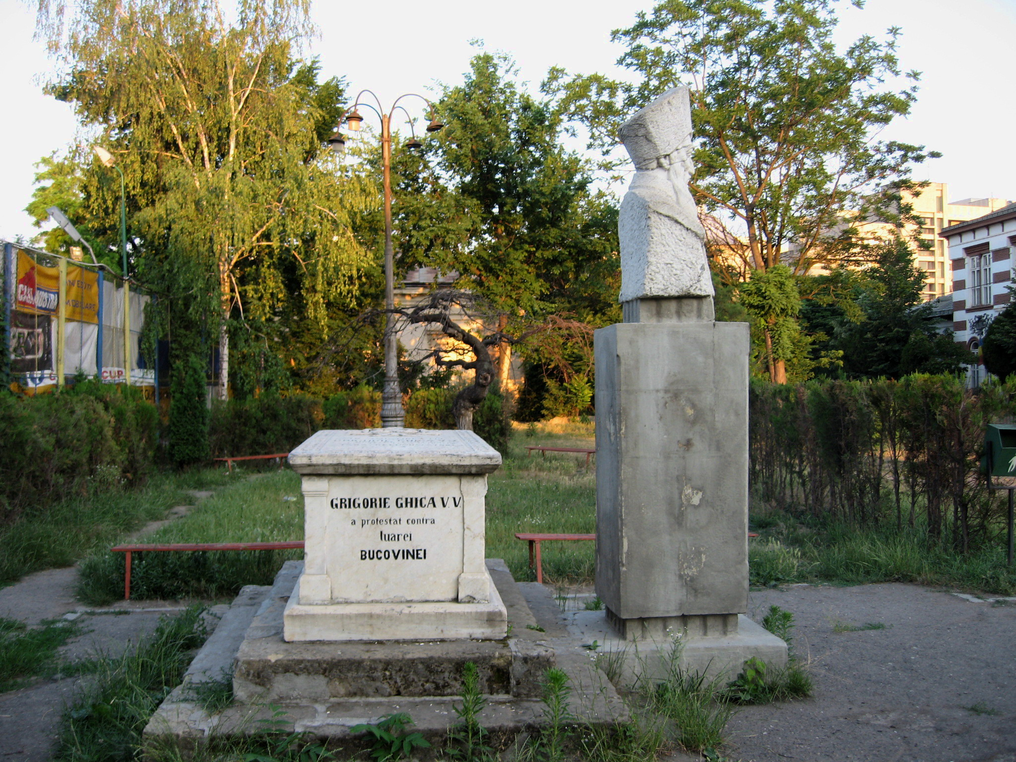 Iasi , Grigore Ghica III monument , Iaşi , Romania